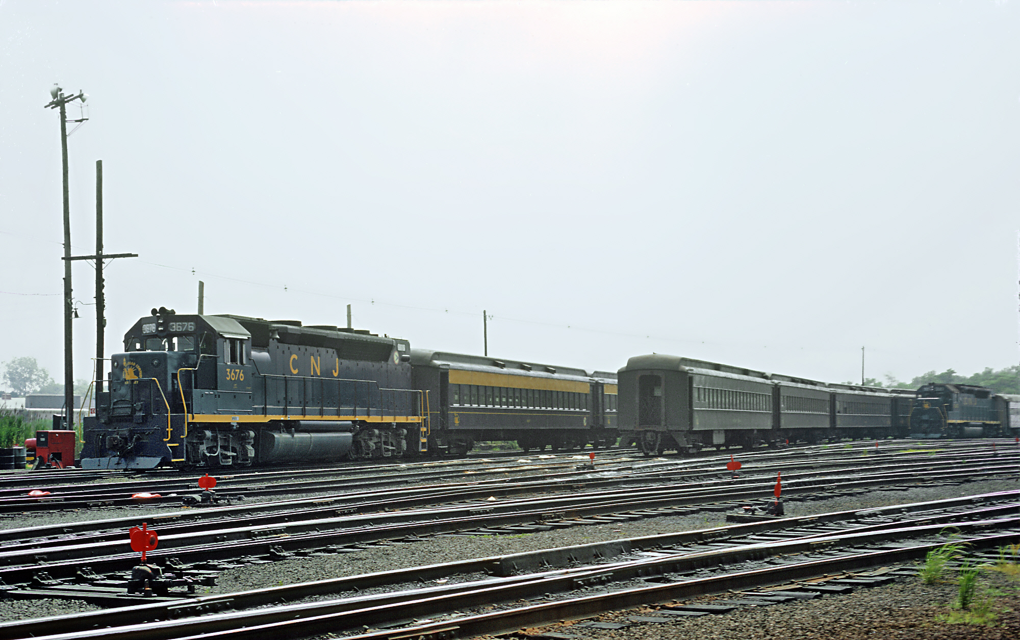 CNJ 3676 at Bay Head, NJ in August 1971